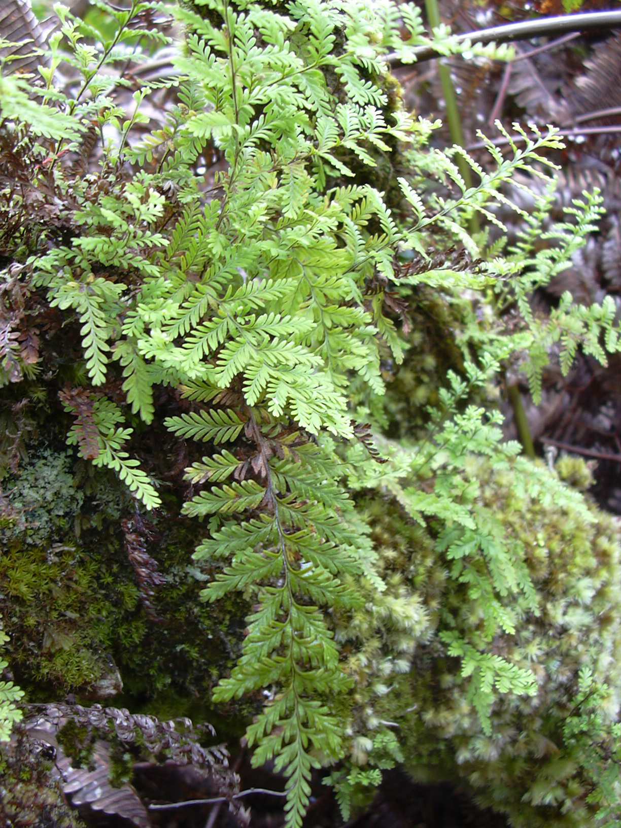 Adenophorus tamariscinus (habit). Location: Maui, Kopiliula